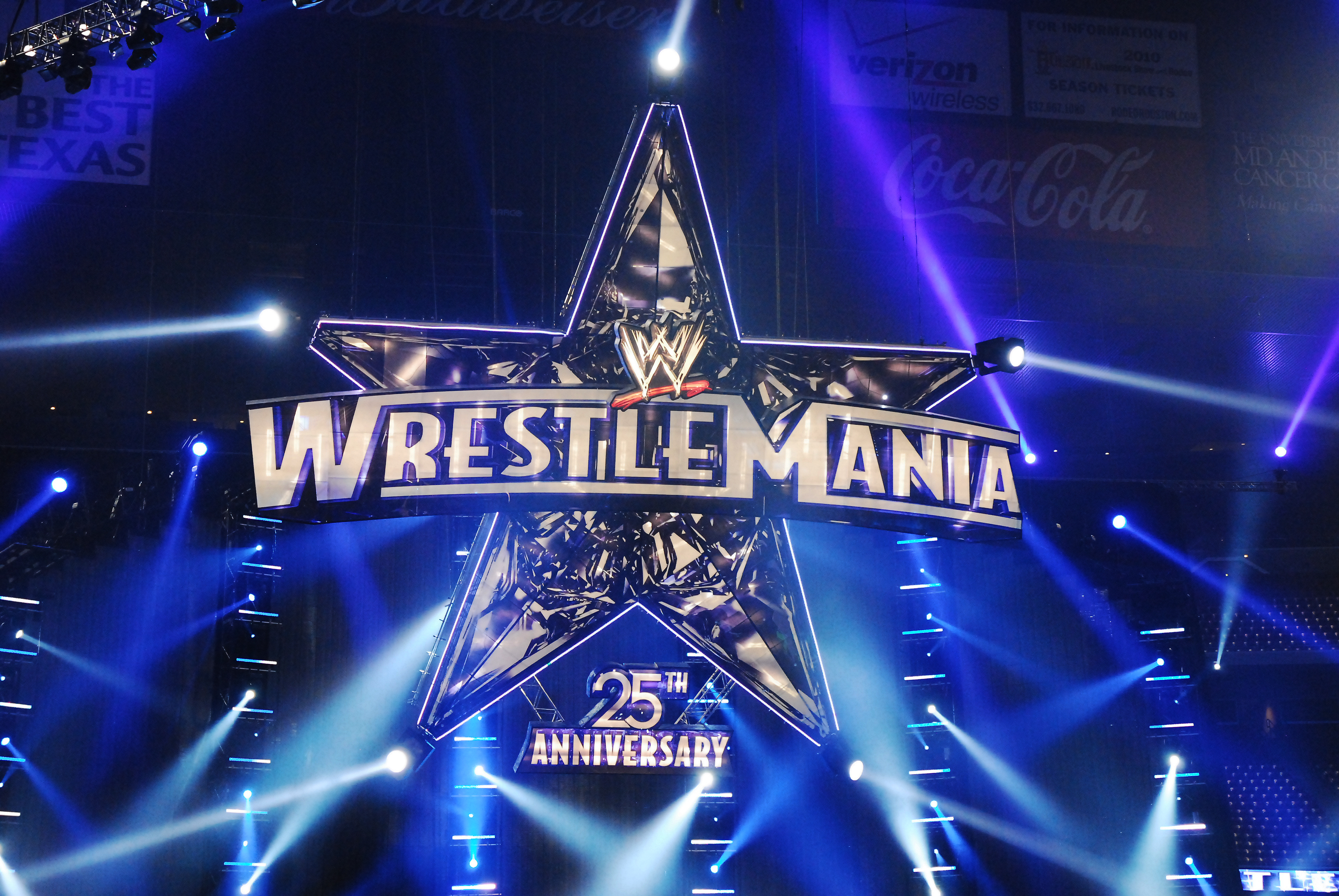 WrestleMania 25 Star